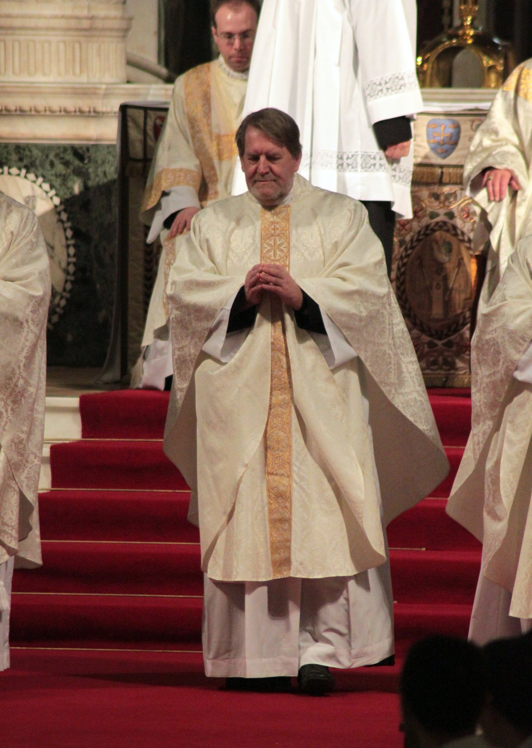 Fr Andrew Burnham during his ordination as catholic priest.